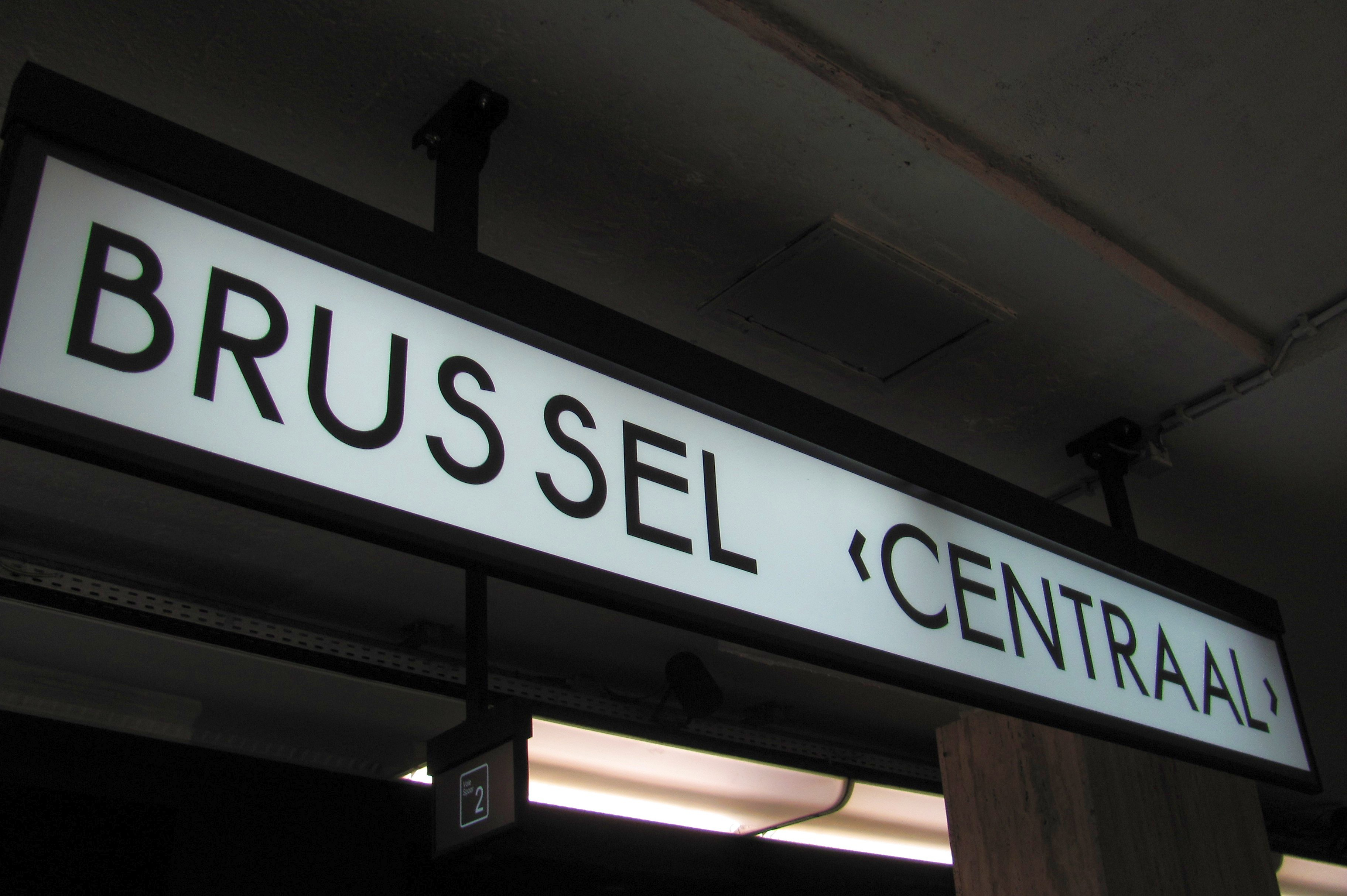 Brussels Central Station